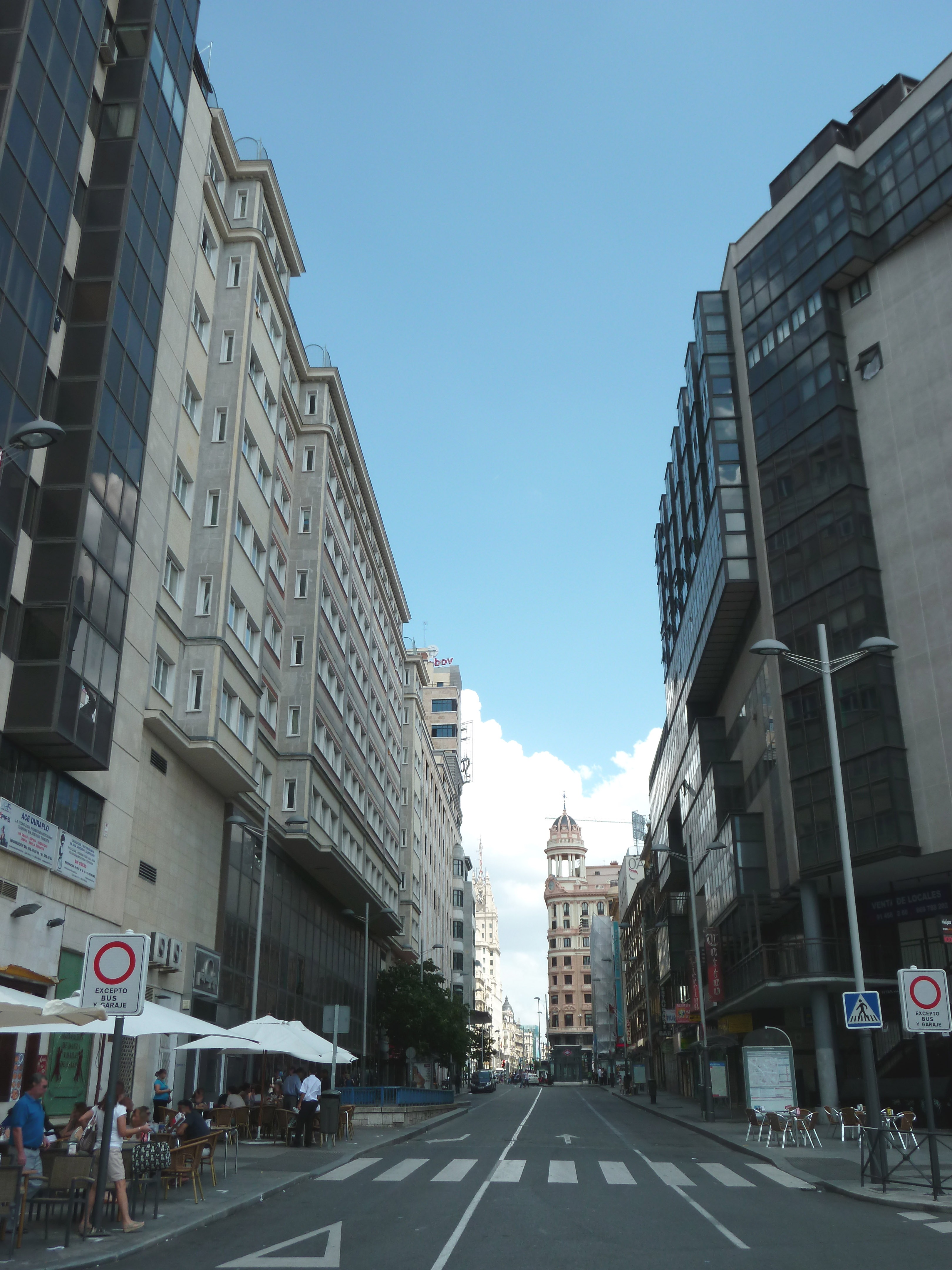 View of Calle de Jacometrezo (street) in Centro district in Madrid (Spain).